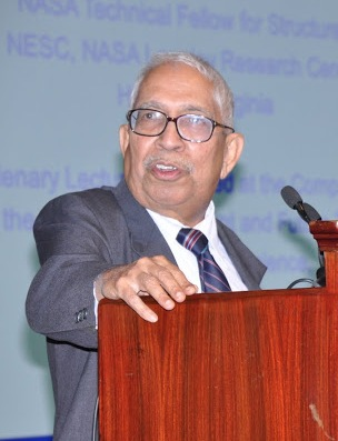 Emeritus Professor Bhagavatula Dattaguru